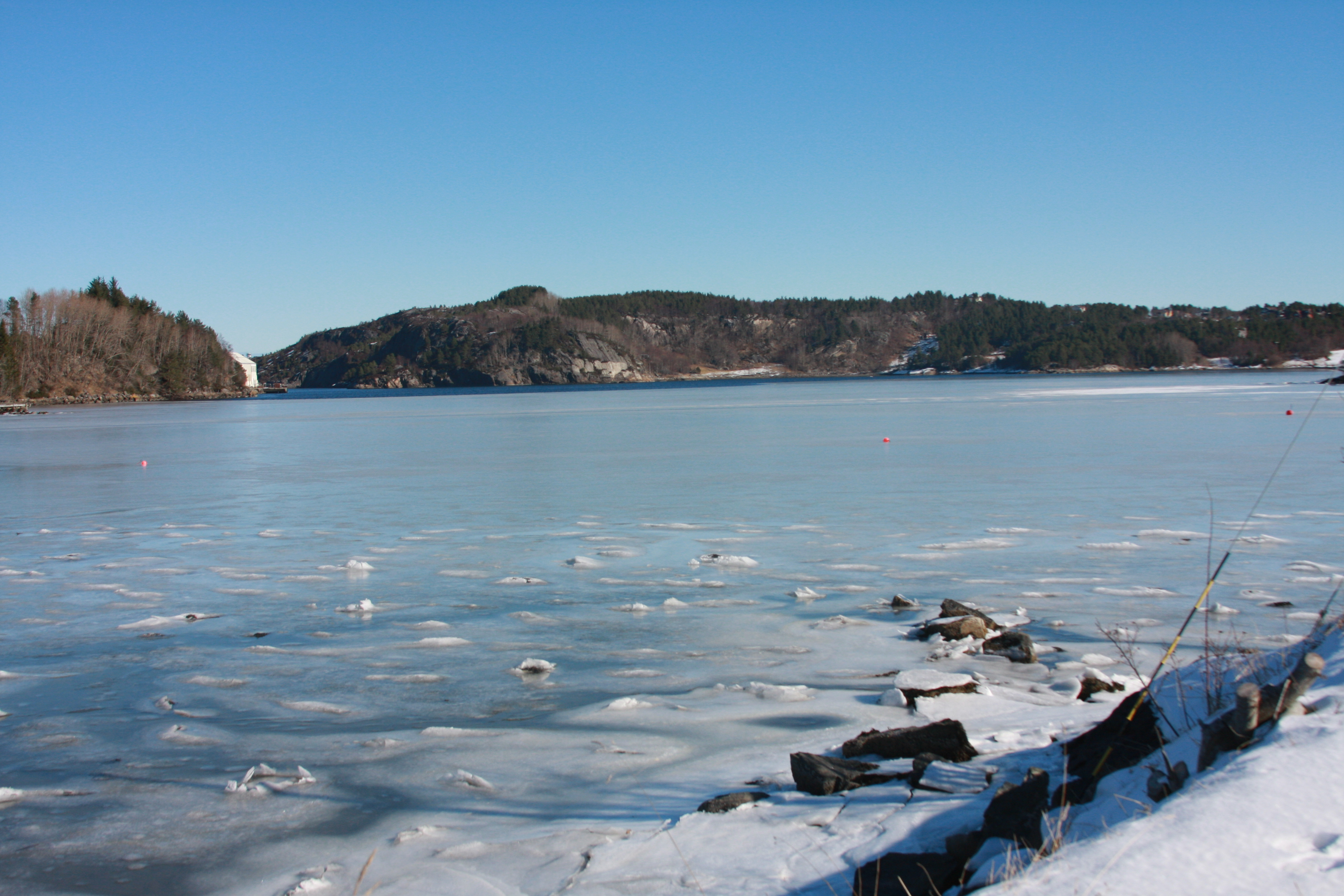 View of the Bolgvågen iced in march, in Bolga (Frei nearby Kristiansund, Norway)